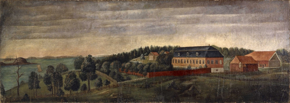 Painting of the manor Grimsrød on Jeløya in Moss, Norway. Oil on canvas, possibly by Iwan Preiwan, early 19th century. Oslo Museum